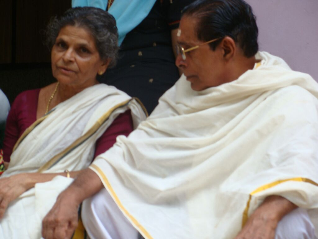 With his wife